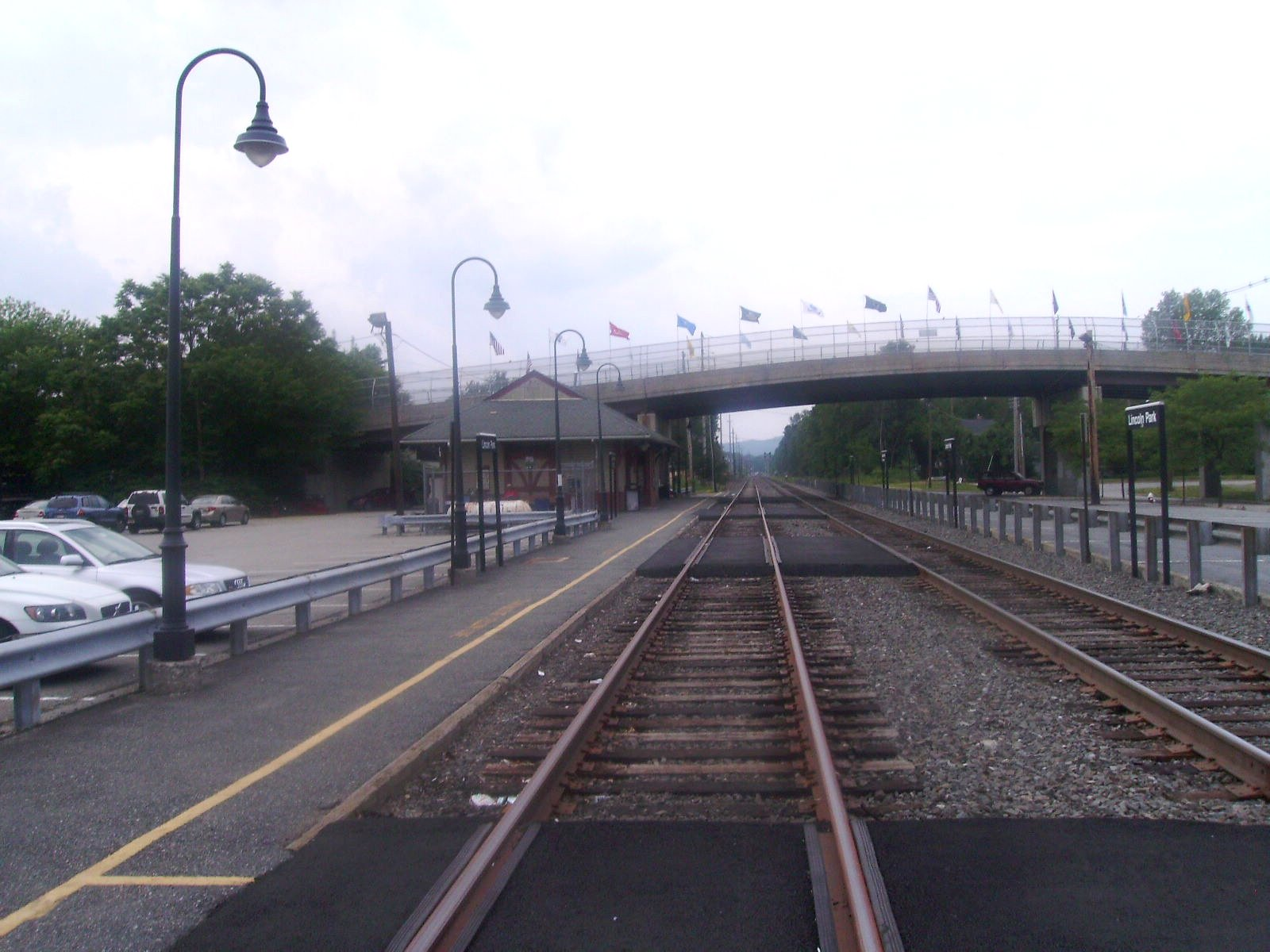 Lincoln Park station facing westbound along the double tracks. The Delaware, Lackawanna and Western Railroad station is visible in the distance along with the Conly Avenue bridge harkening above.